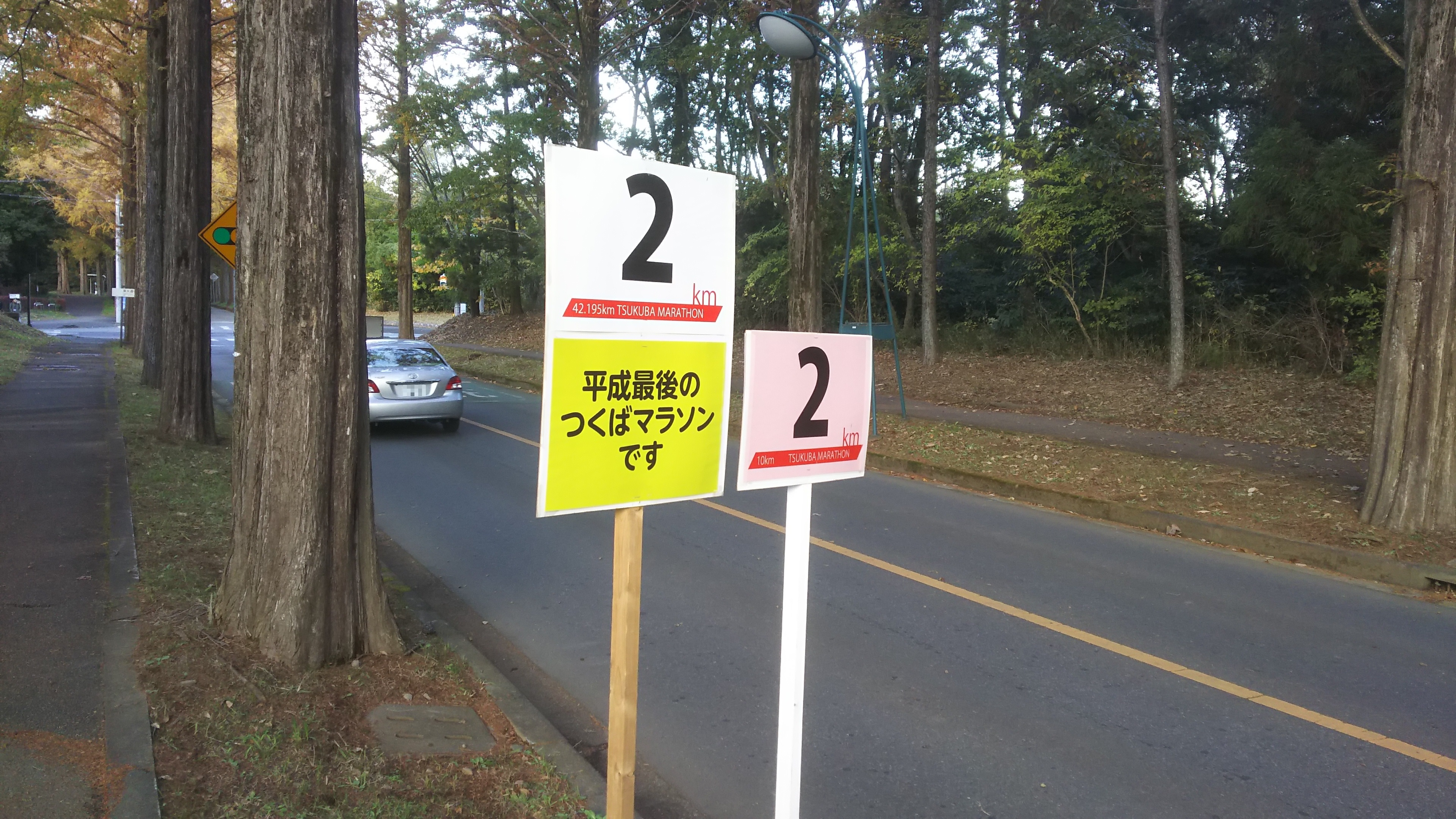 This sign is distance display for Tsukuba Marathon. It was taken in Tsukuba campus, University of Tsukuba, Ibaraki, Japan.